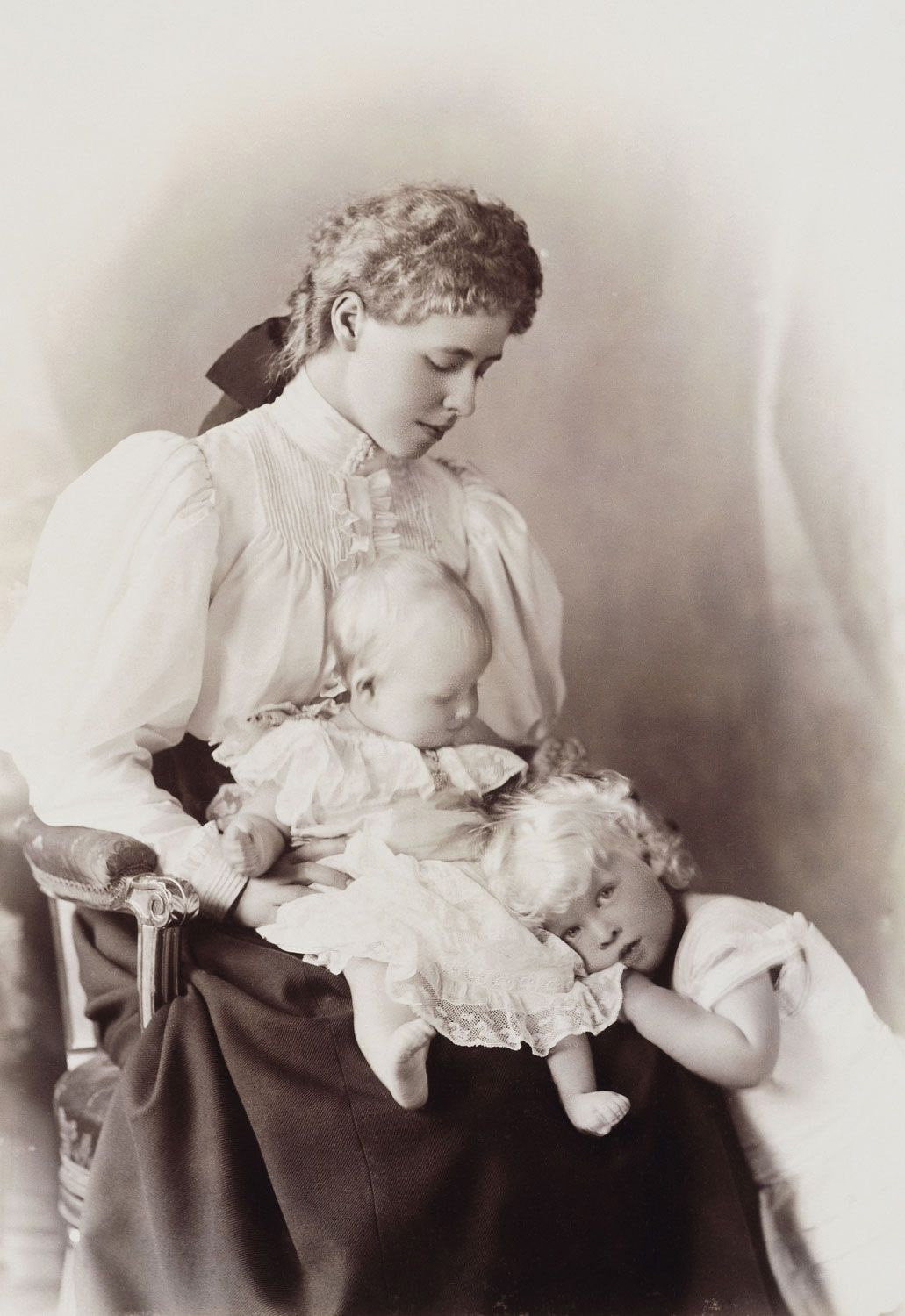 Princess Marie (known as Missy) and her children, Prince Carol and Princess Elizabeth, were visiting the Isle of Wight in July 1895 at the same time as her sister, Victoria Melita, Grand Duchess of Hesse (known as Ducky).